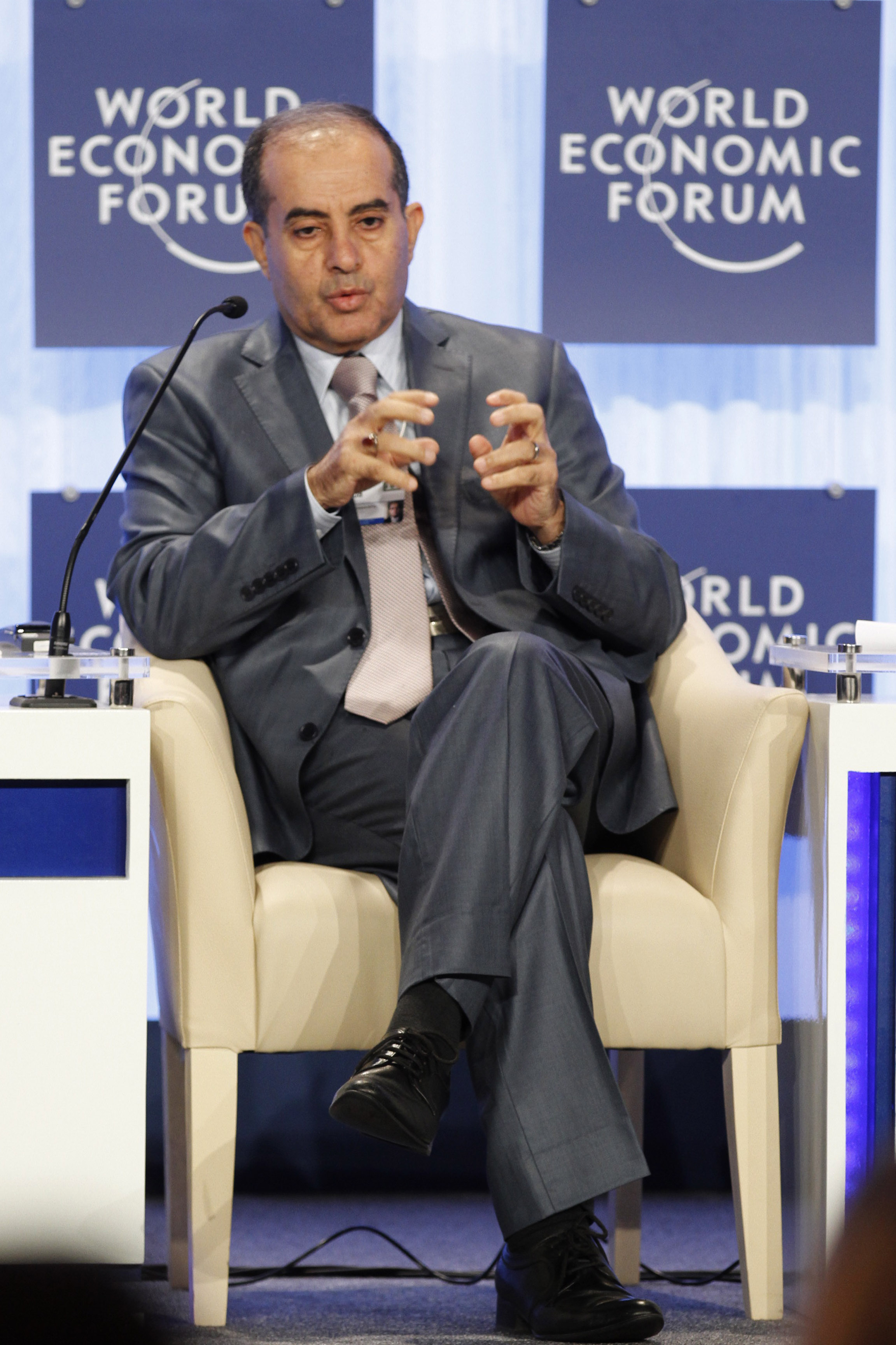 DEAD SEA/JORDAN, 22OCT11 - Mahmoud Jibril, Chairman, Executive Office, National Transitional Council (NTC) of Libya, Libya captured during the World Economic Forum Special Meeting on Economic Growth and Job Creation in the Arab World at the Dead Sea in Jordan, 22 October, 2011.